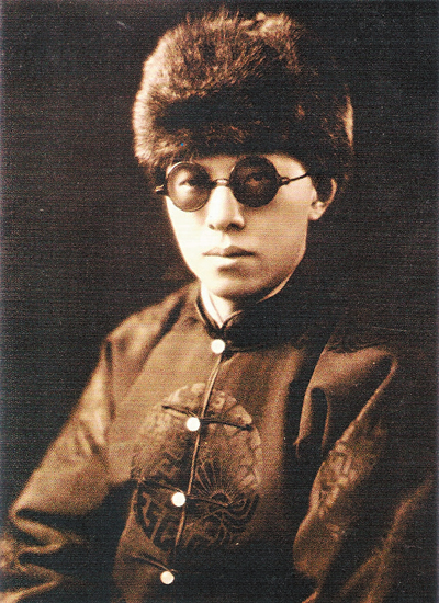 Zhou Shouyi 周瘦鹃 was the editor of Liangyou, or the Young Companion June 15, 1927 to January 1927.